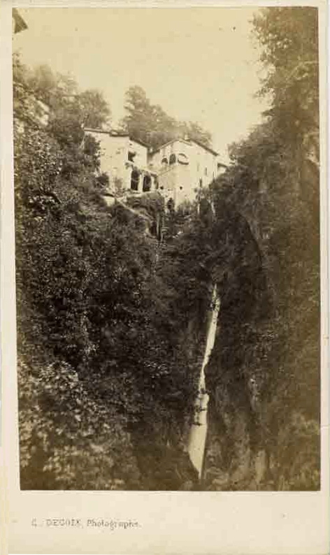 Celestino Degoix (operating from circa 1860 until 1890), "Lake Como - The canyon at Nesso".